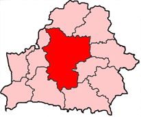 Orthodox Eparchy of Miensk (Minsk), Belarus